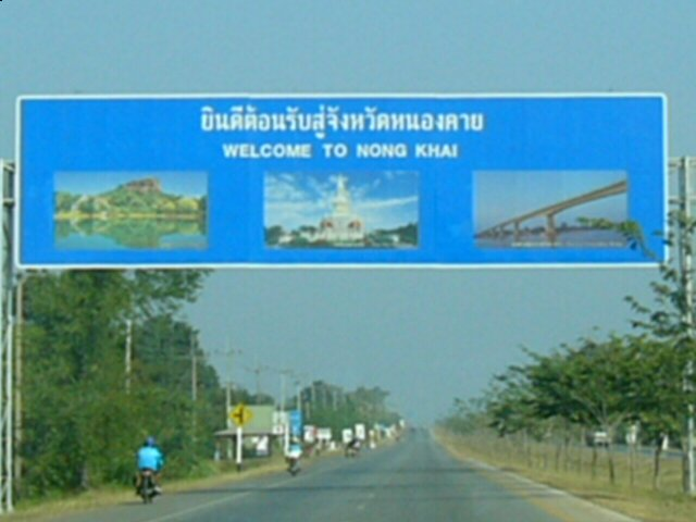 Welcome sign Nong Khai (Thailand)